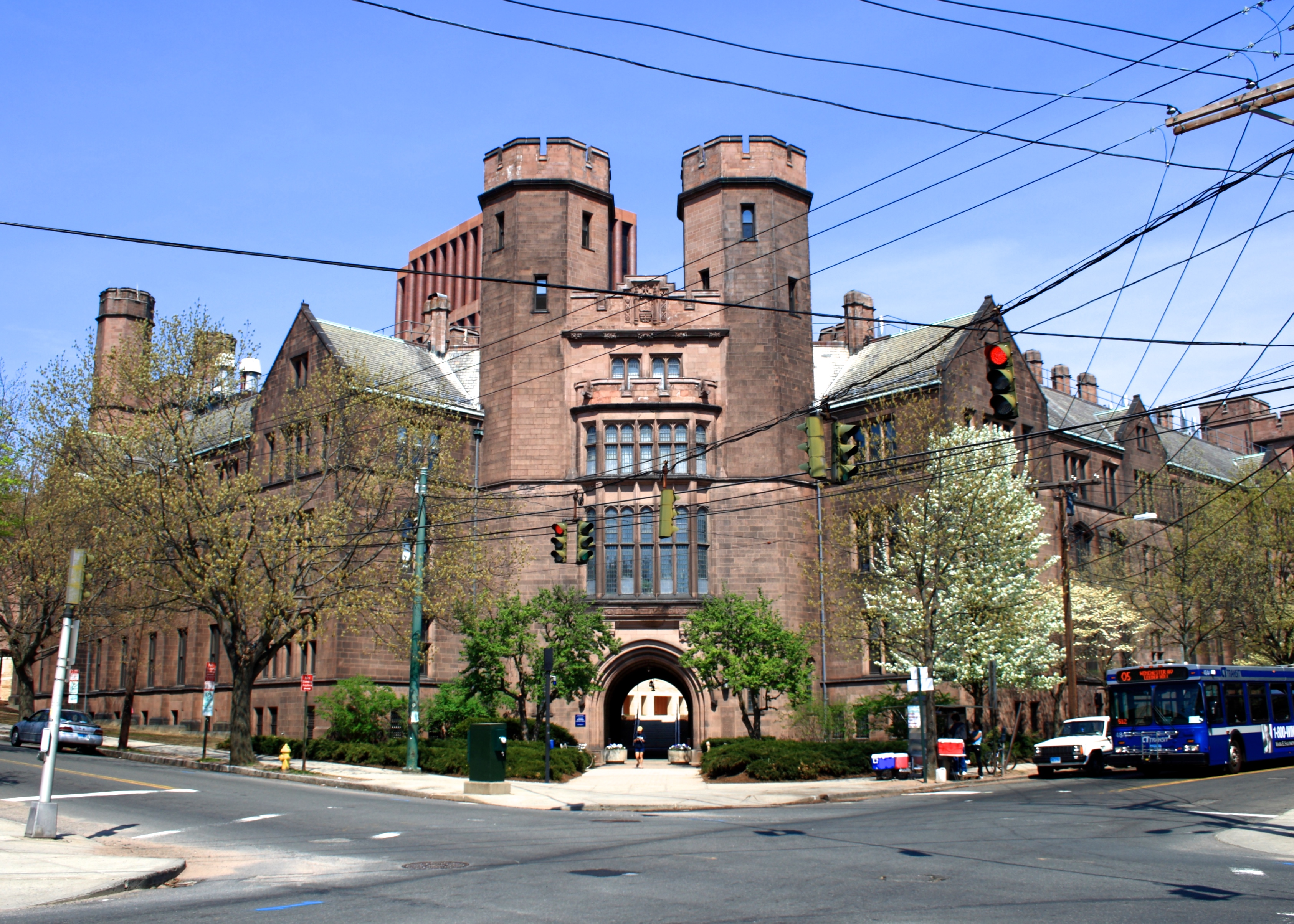 Osborn Memorial Laboratories at Yale University